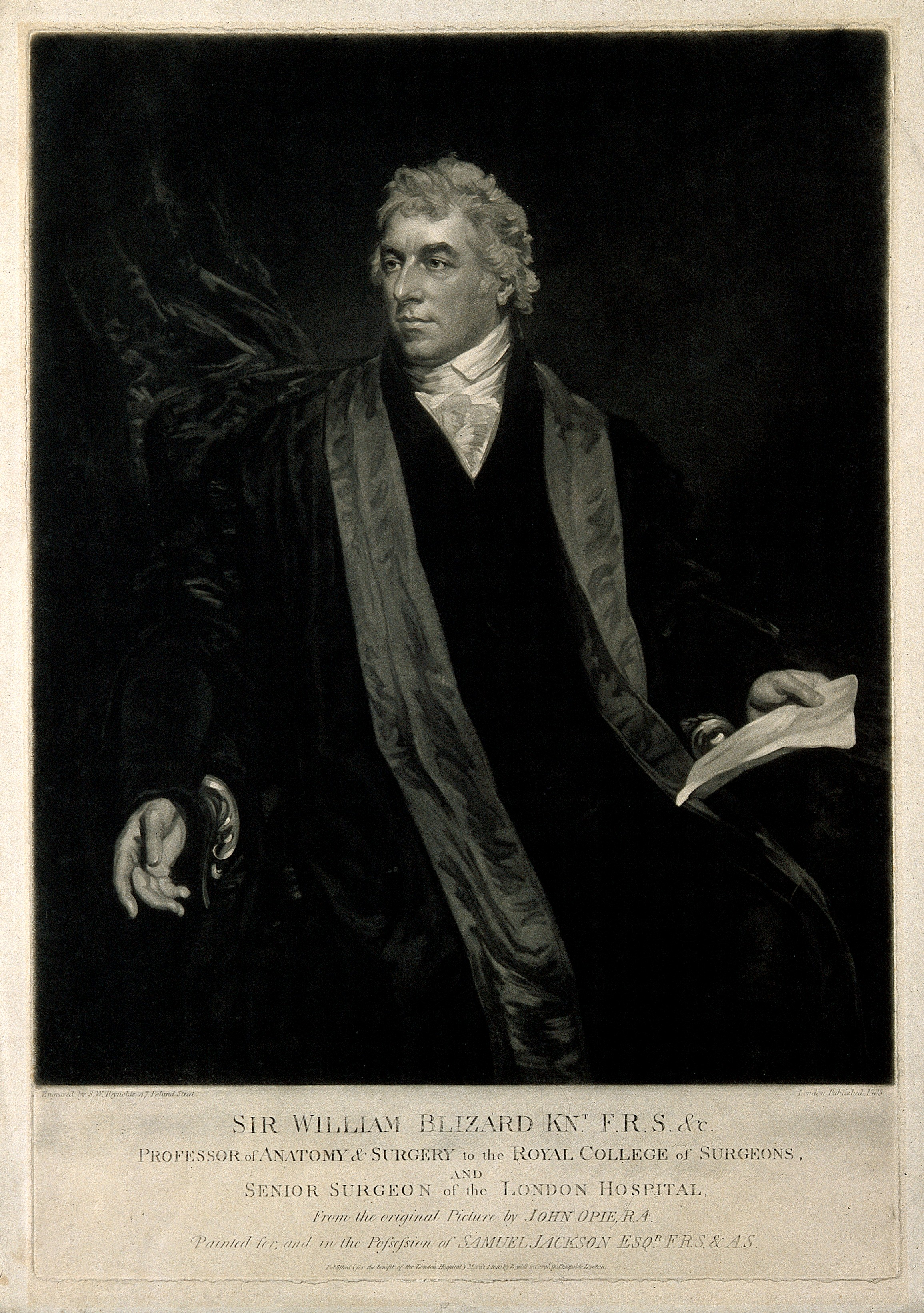 Sir William Blizard. Mezzotint by S. W. Reynolds after J. Opie. Iconographic Collections Keywords: Samuel William Reynolds; portrait prints; mezzotints; John Opie; blizard, william, sir, 1743-18; William Blizard